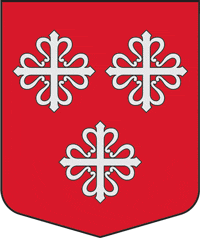 Coat of arms of Raunas pagasts, Latvia